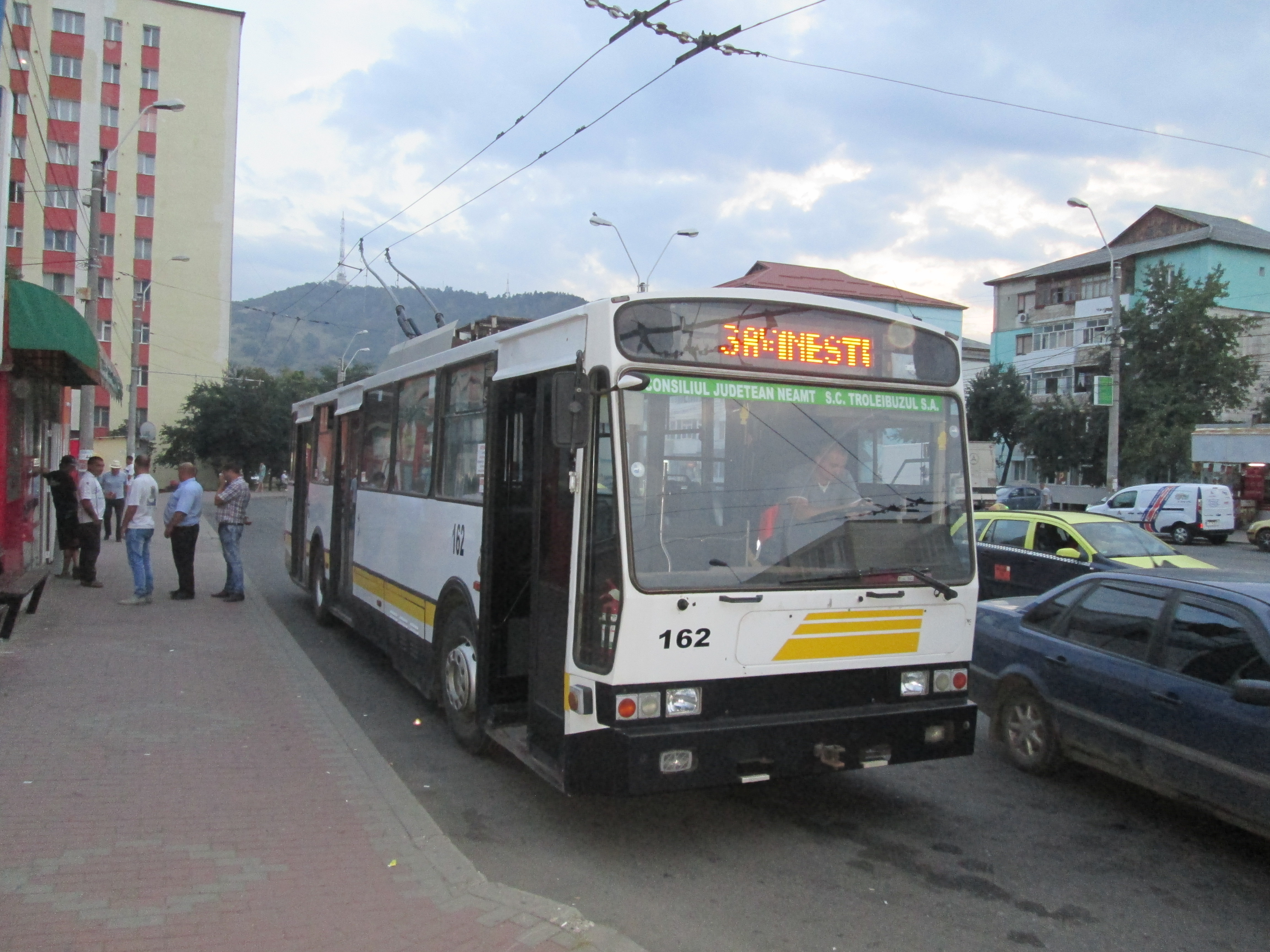 Rocar DeSimon 412E trolleybus (second hand ex-Constanta) at Darmanesti bus terminal in Piatra Neamt, Romania